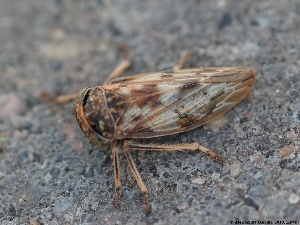 Rhytidodus decimusquartus